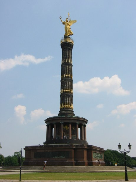 Photo of Berlin victory column (taken June 3, 2003 by djmutex).